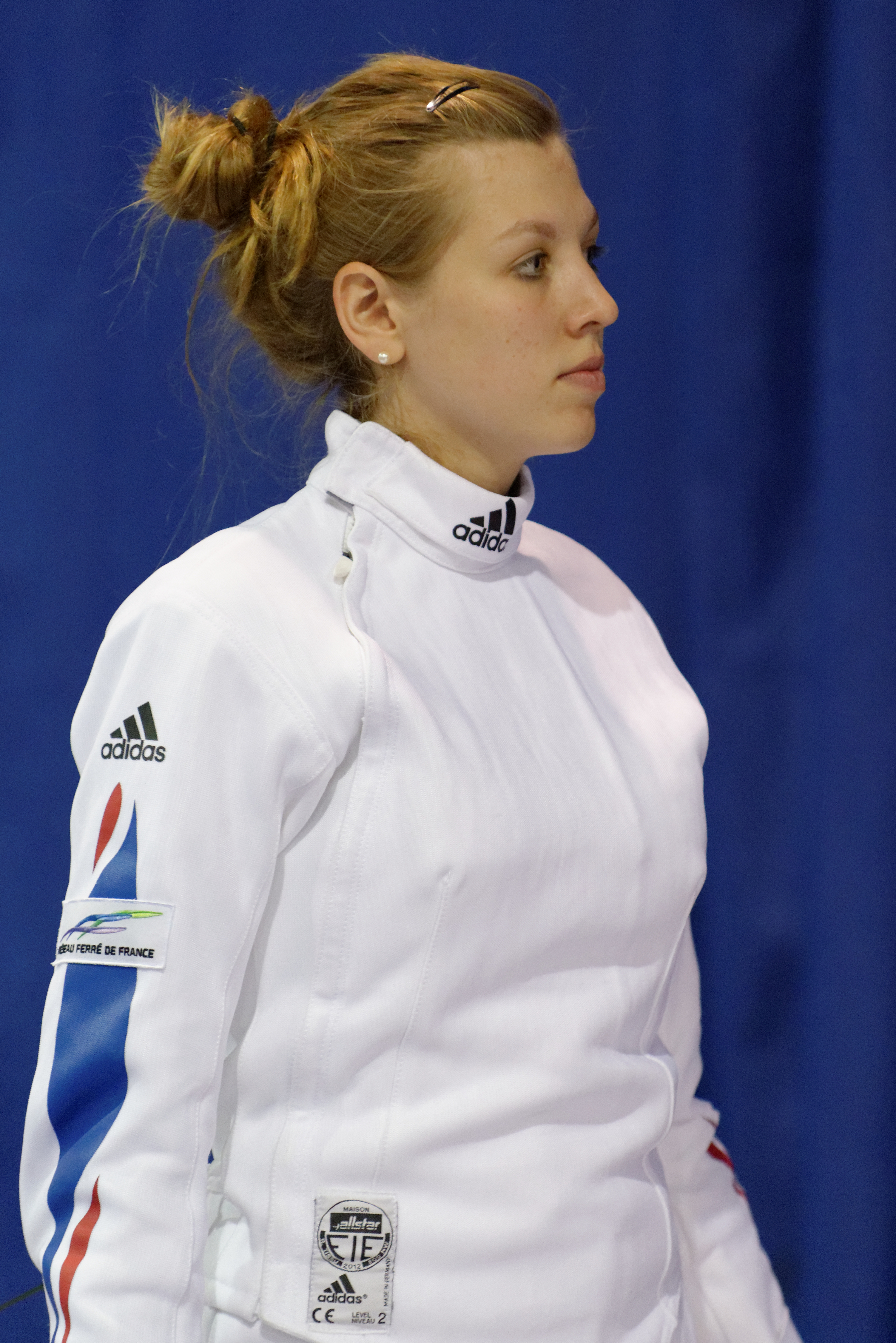 Auriane Mallo competes in the women's team épée during the 2013 World Fencing Championships 2013 at Syma Hall in Budapest, 11 August 2013.